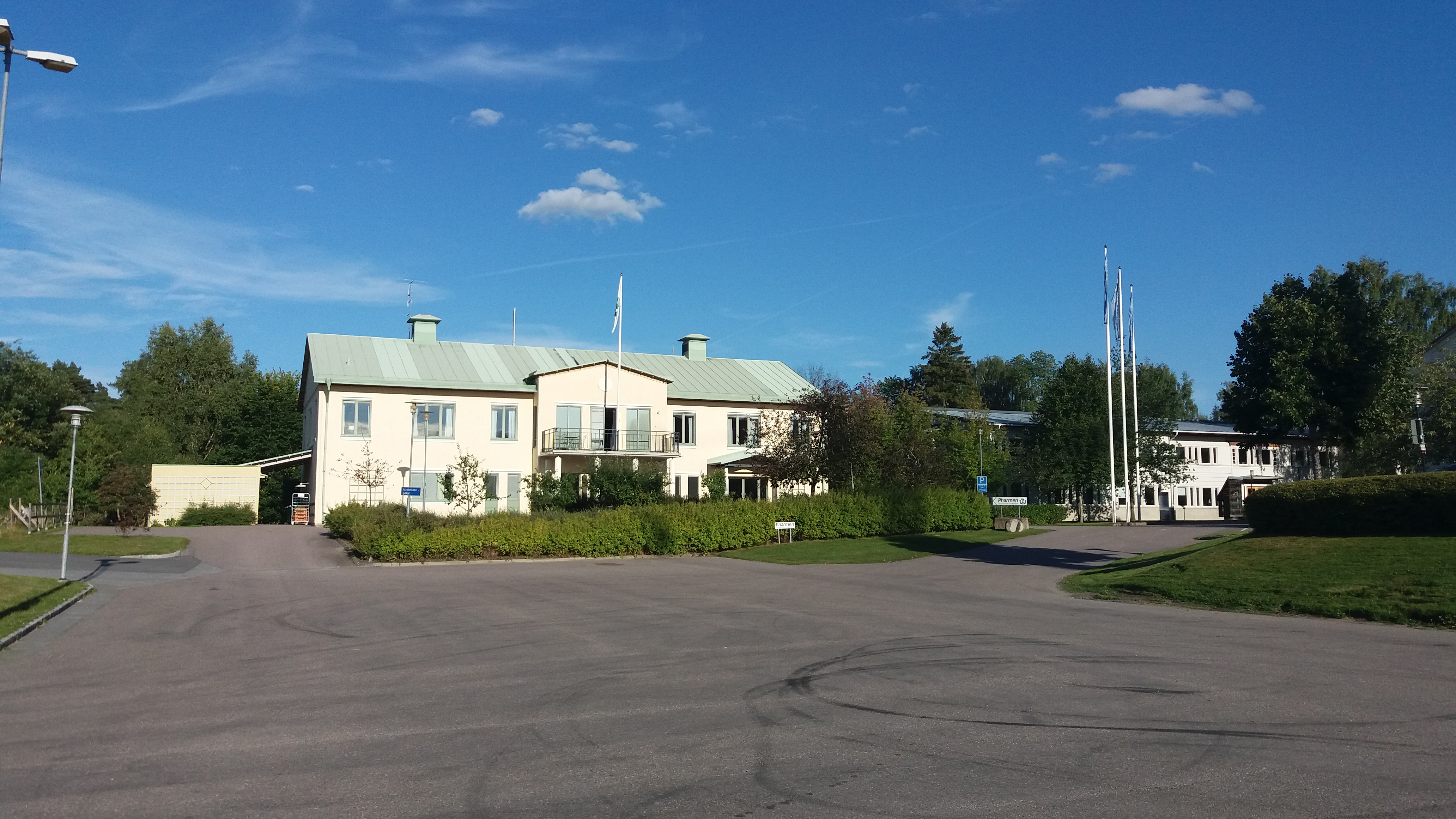 Pharmen, Uppsala